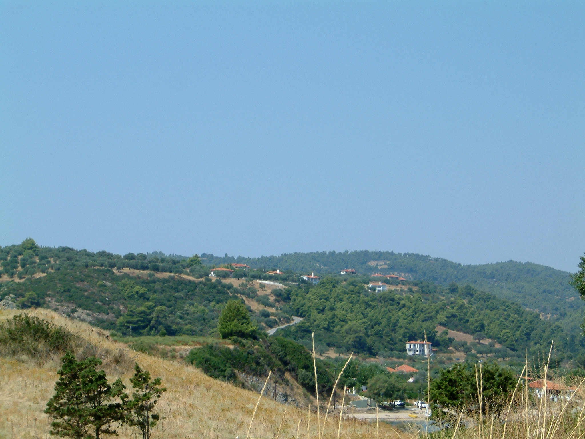 Agios Nikoloas, Chalkidiki, Greece - View on the southeastern side of the village.